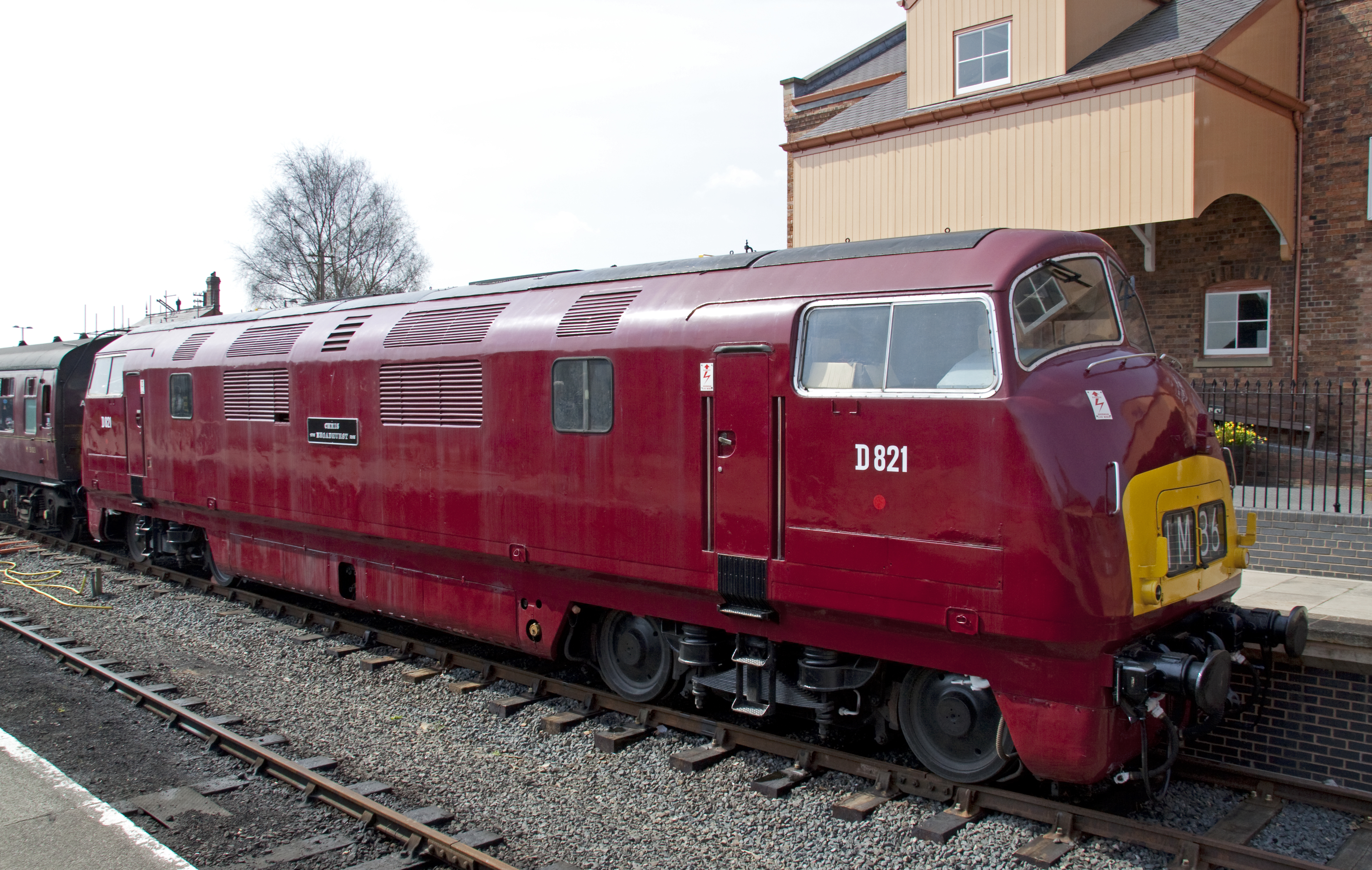 D821 Warship 'Greyhound', temporarily renamed 'Chris Broadhurst', at Kidderminster